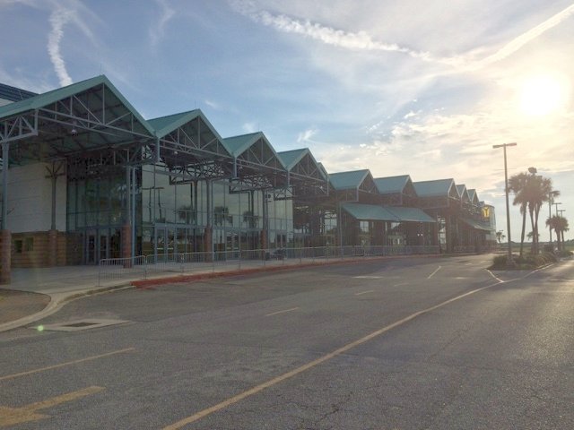 The Pontchartrain Center in Kenner, LA.